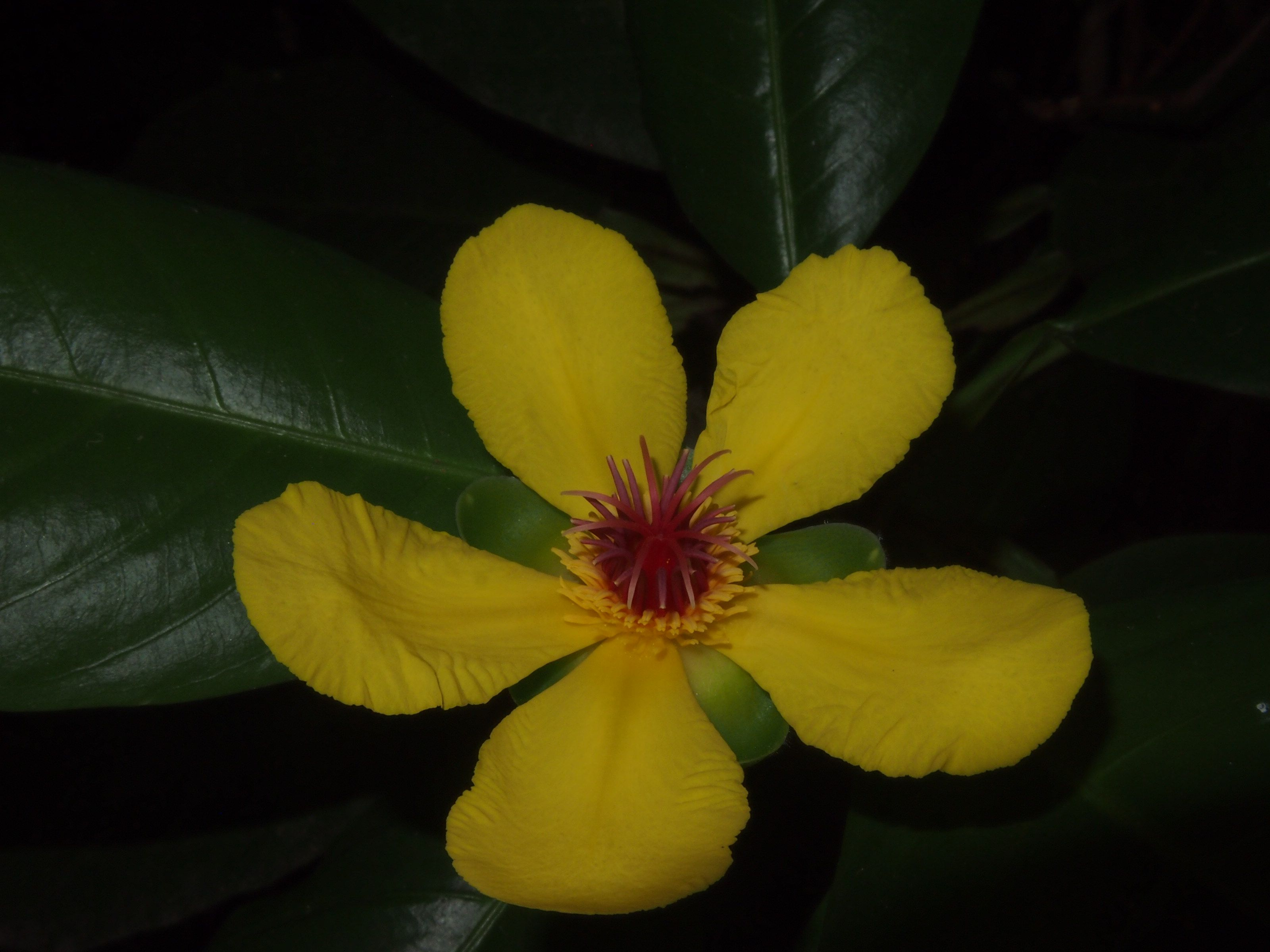 Dillenia alata flower